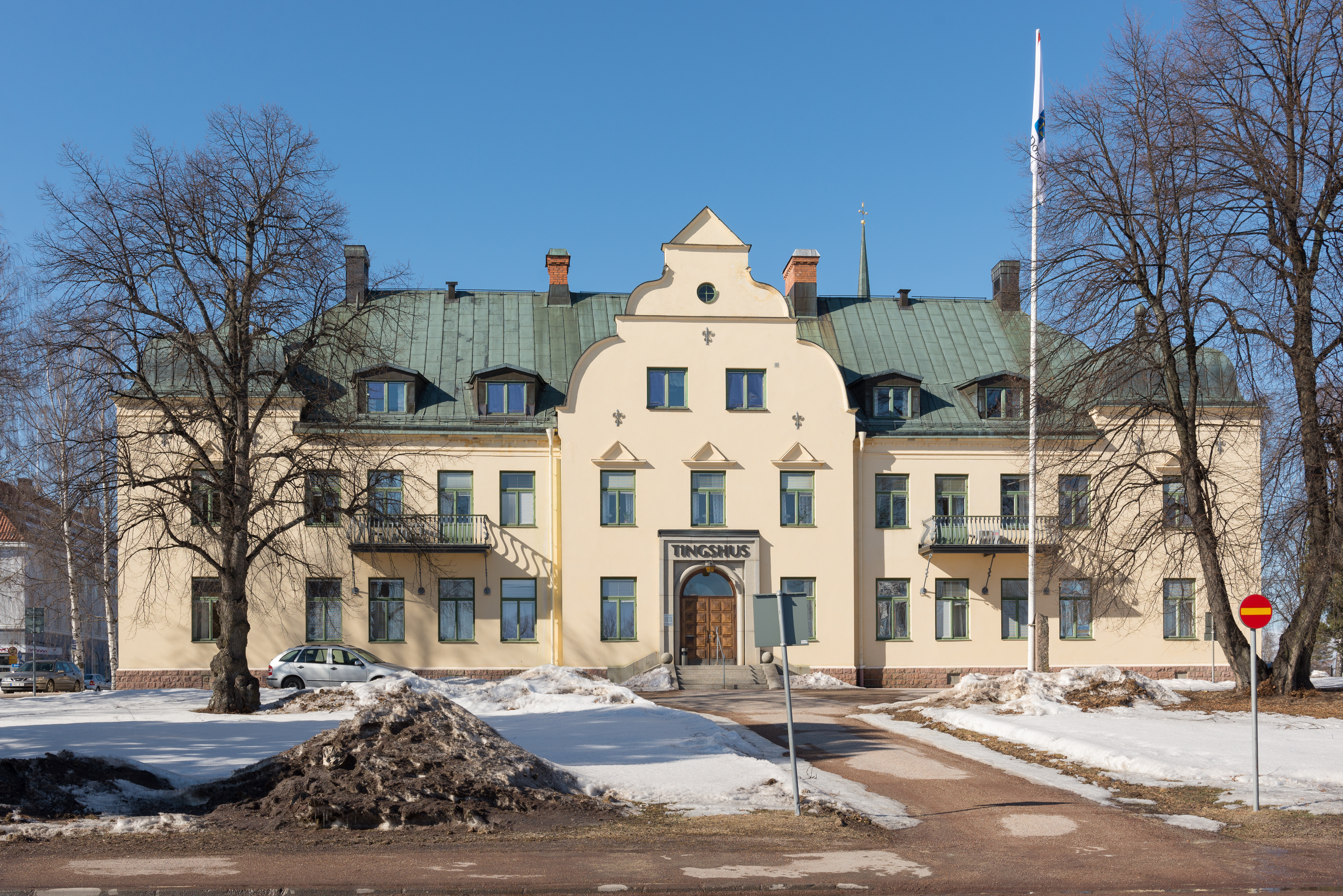 Mora tingshus (Mora court house), Mora, Sweden.